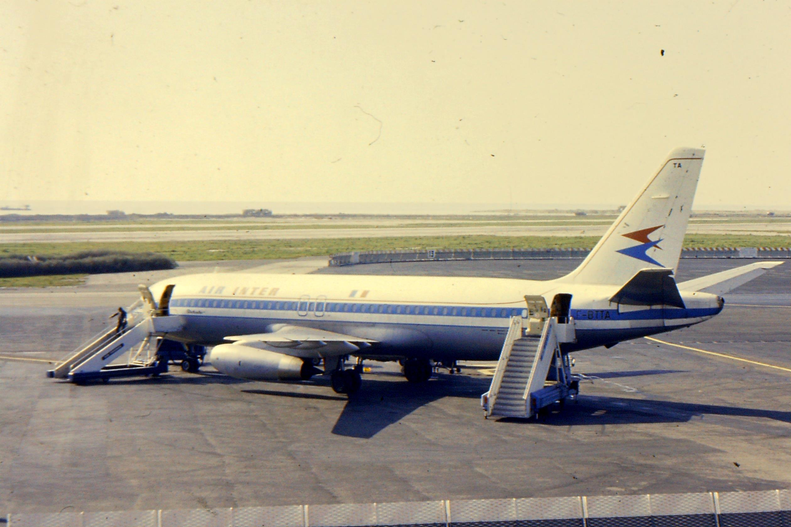 An old slide but interesting as it captures Air Inter's old scheme on their newest type at the time. The odd Mecure had limited range and limited seating - perfect for French domestic service and that was about it. I think this was their first example to be delivered.